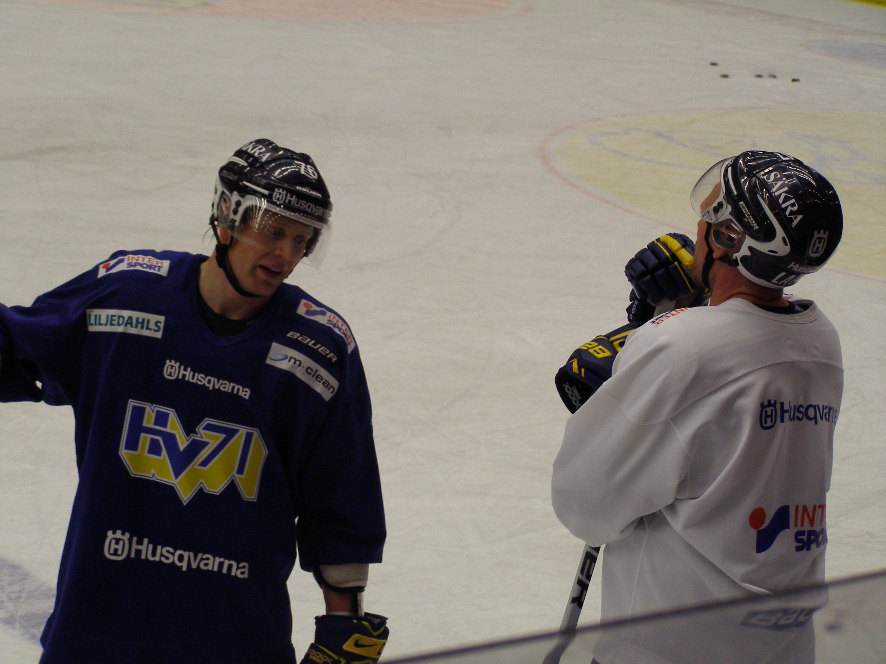 Johan Davidsson discussing with Lance Ward